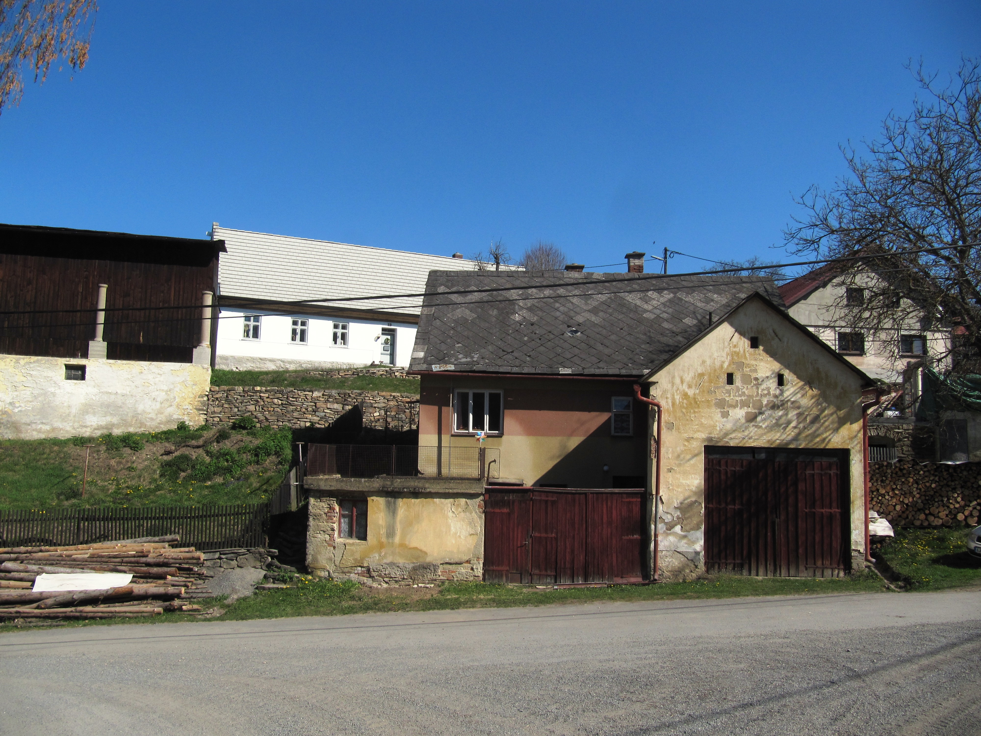 Věstín, Žďár nad Sázavou District, Czechia, part Věstínek.